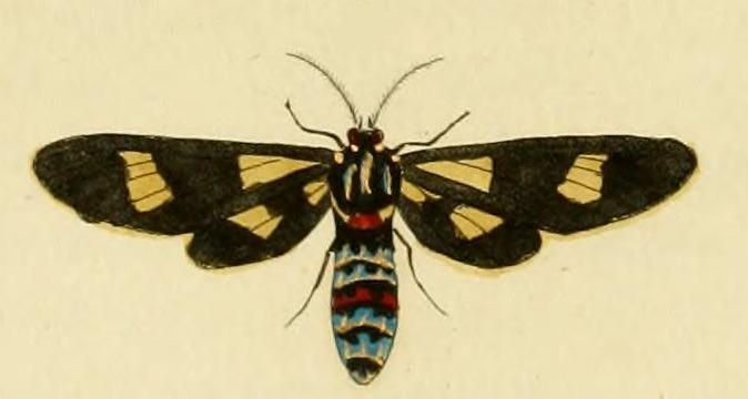 Plate CXLVI C: "(Sphinx) Sperchius" ( = Euchromia guineensis), see Funet